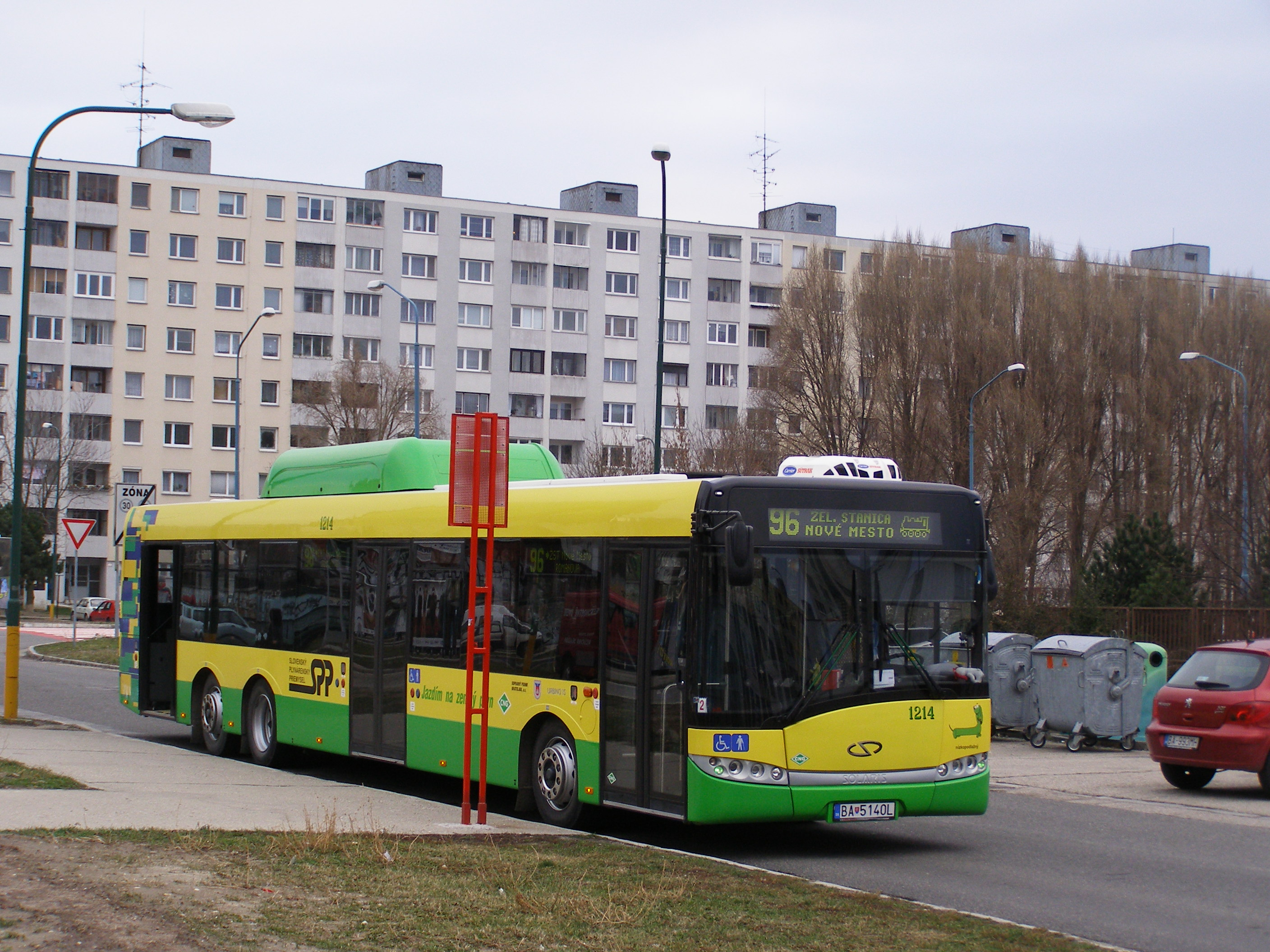 Solaris Urbino 15/III CNG bus (#1214), Prokofievova street, Petržalka, Bratislava, Slovakia. Built 2006, DP Bratislava operator.